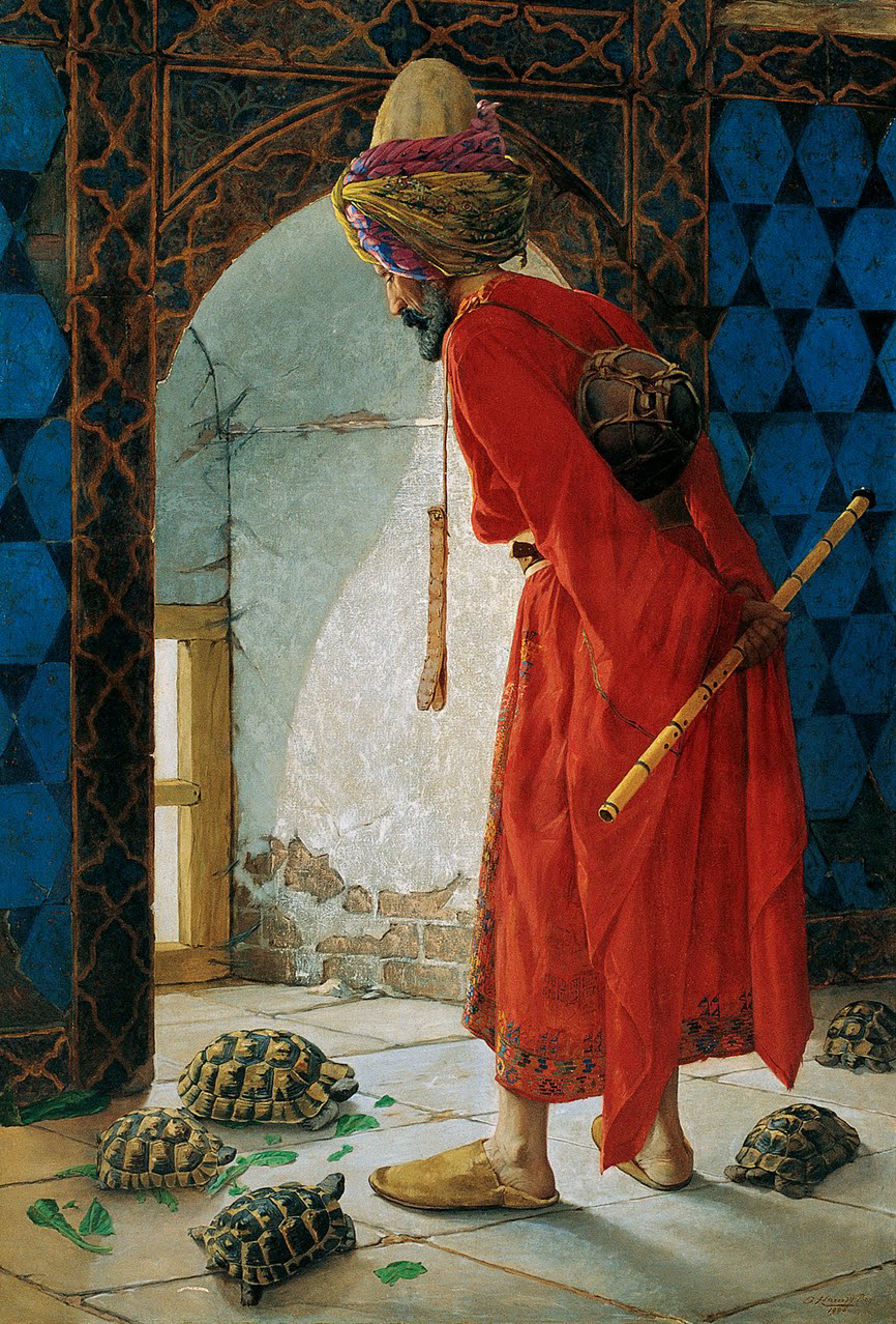 Tortoise Trainer; oil on canvas, 221.5 x 120 cm. According to modern researchers (Bettelheim, Matthew P. and Ertan Taskavak. 2006. The Tortoise and the Tulip - Testudo graeca ibera and Osman Hamdi's "The Tortoise Trainer". Bibliotheca Herpetologica. 6(2): pp 11-15.), the animals portrayed are Testudo graeca ibera, a variety of the Spur-thighed Tortoise